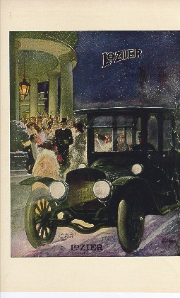 A 1912 advertisement for Lozier Touring Car priced at $5,000.